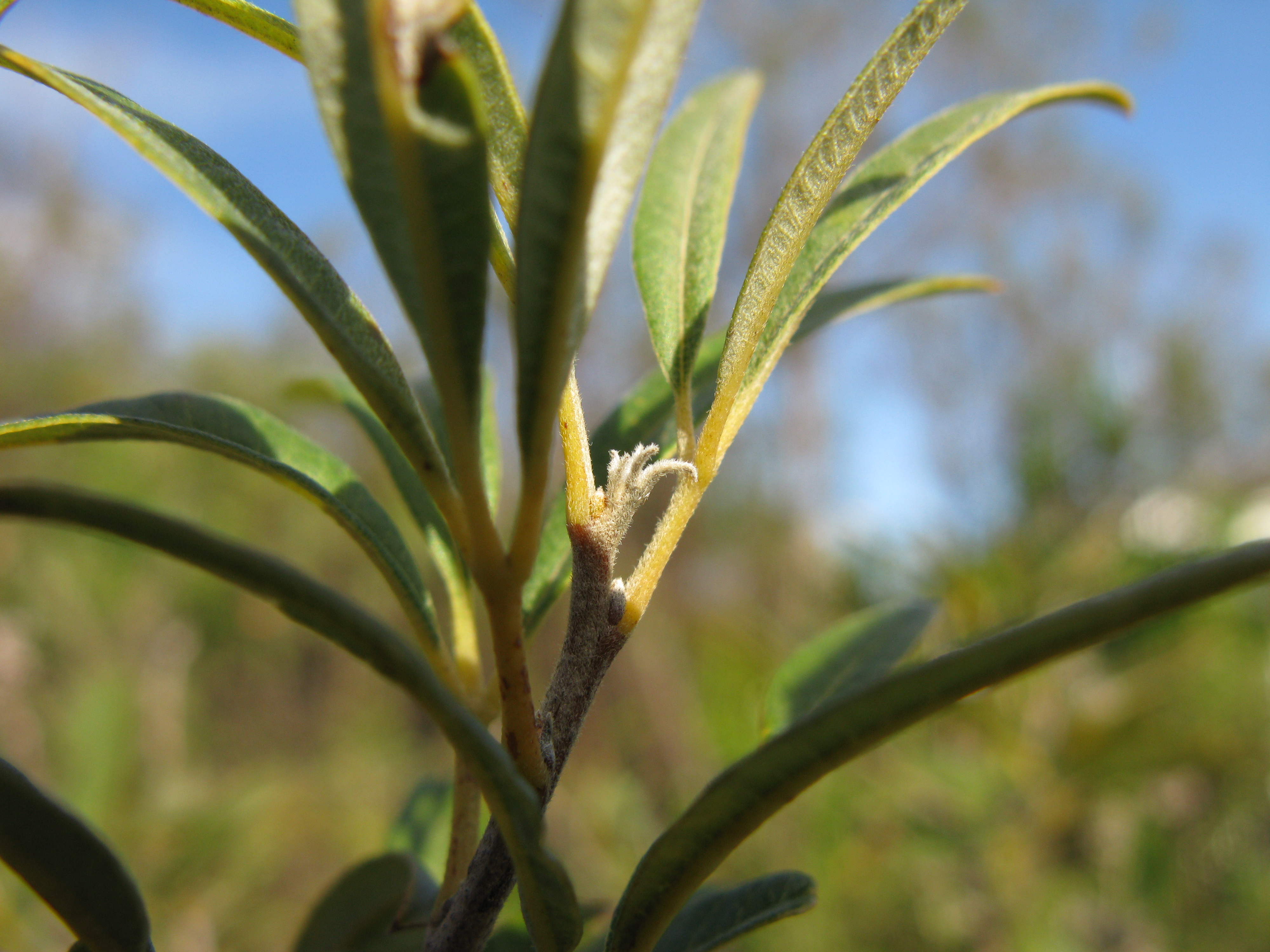 Note the naked apical bud, in contrast to the axillary buds that may remain dormant indefinitely, or sprout soon, and are protected by scaly cataphylls.